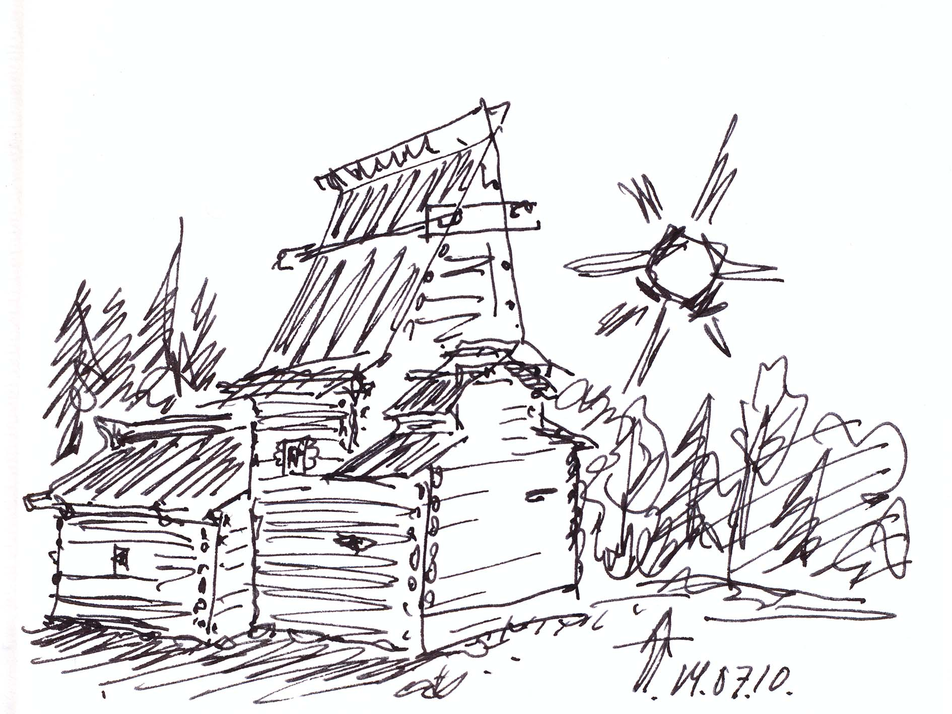 Church_of_the_Deposition_from_the_Borodavа. It is in the Kirillo-Belozersky Monastery now, in the town of Kirillov, Vologda oblast, Russia. According to recent studies, the appearance of the church is different from what it had in the XIX and XX centuries. The drawing by architect Alexander Popov who restored the church in 2010. Ink on paper.